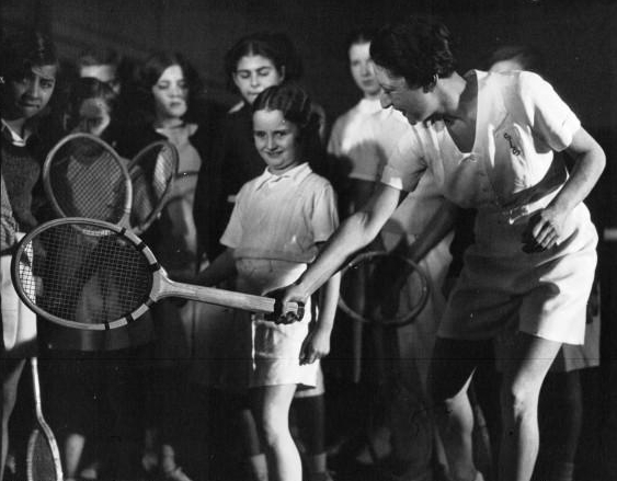 French tennis player Suzanne Lenglen at her tennis school in 1936.